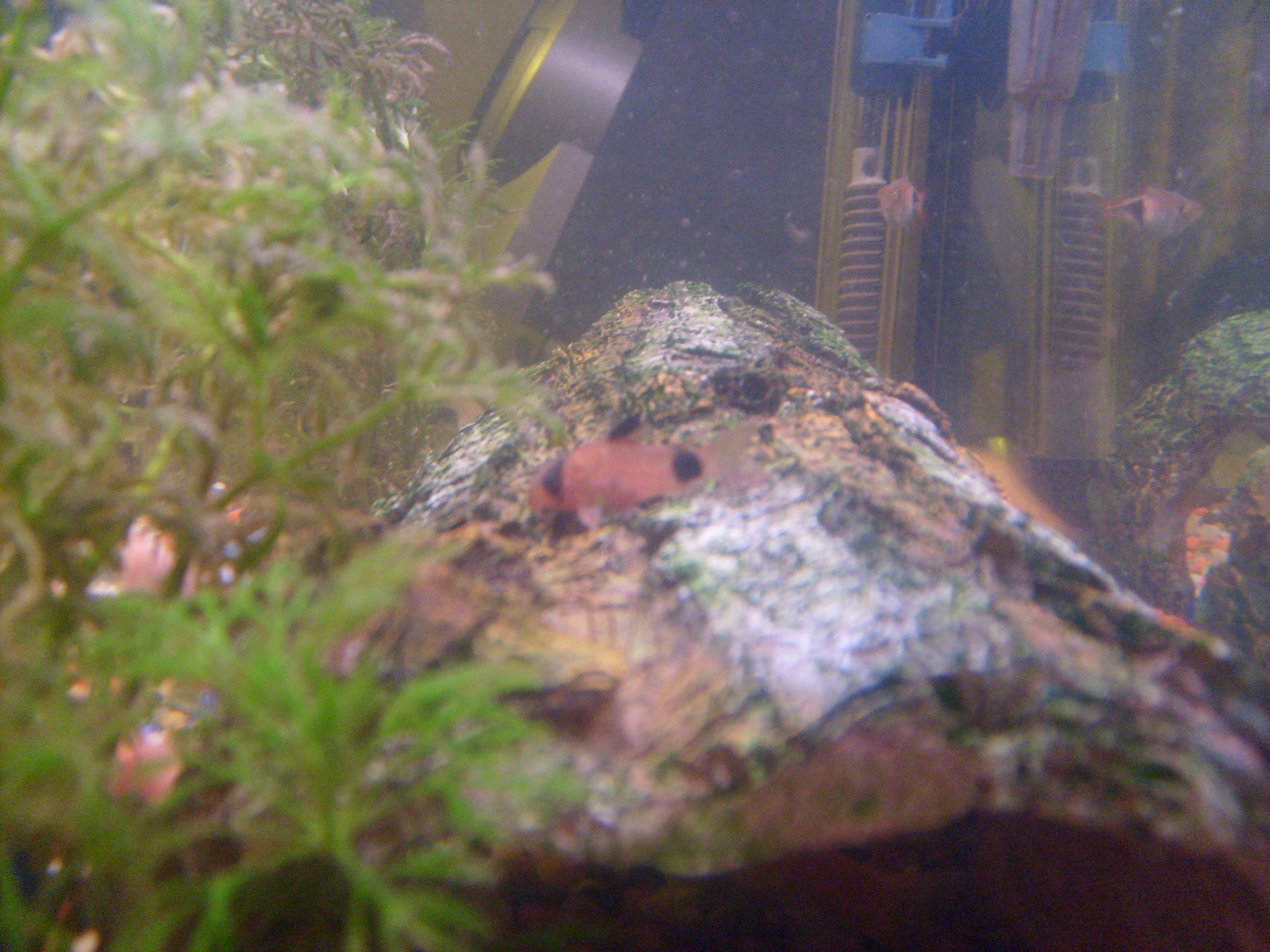 A photo of our panda cat fish in our small tropical tank. For the Panda corydoras page. Released under dual licenses creative commons (Attribution / Share Alike 3.0) and GFDL.